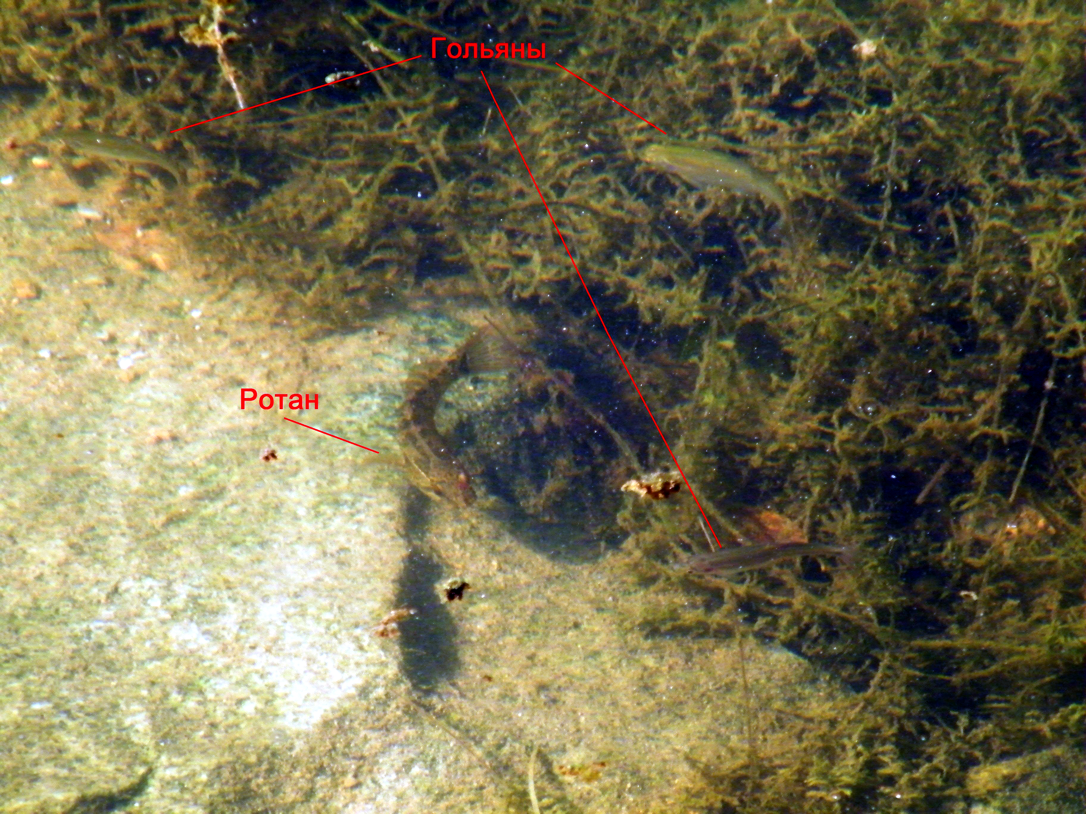 Perccottus glenii